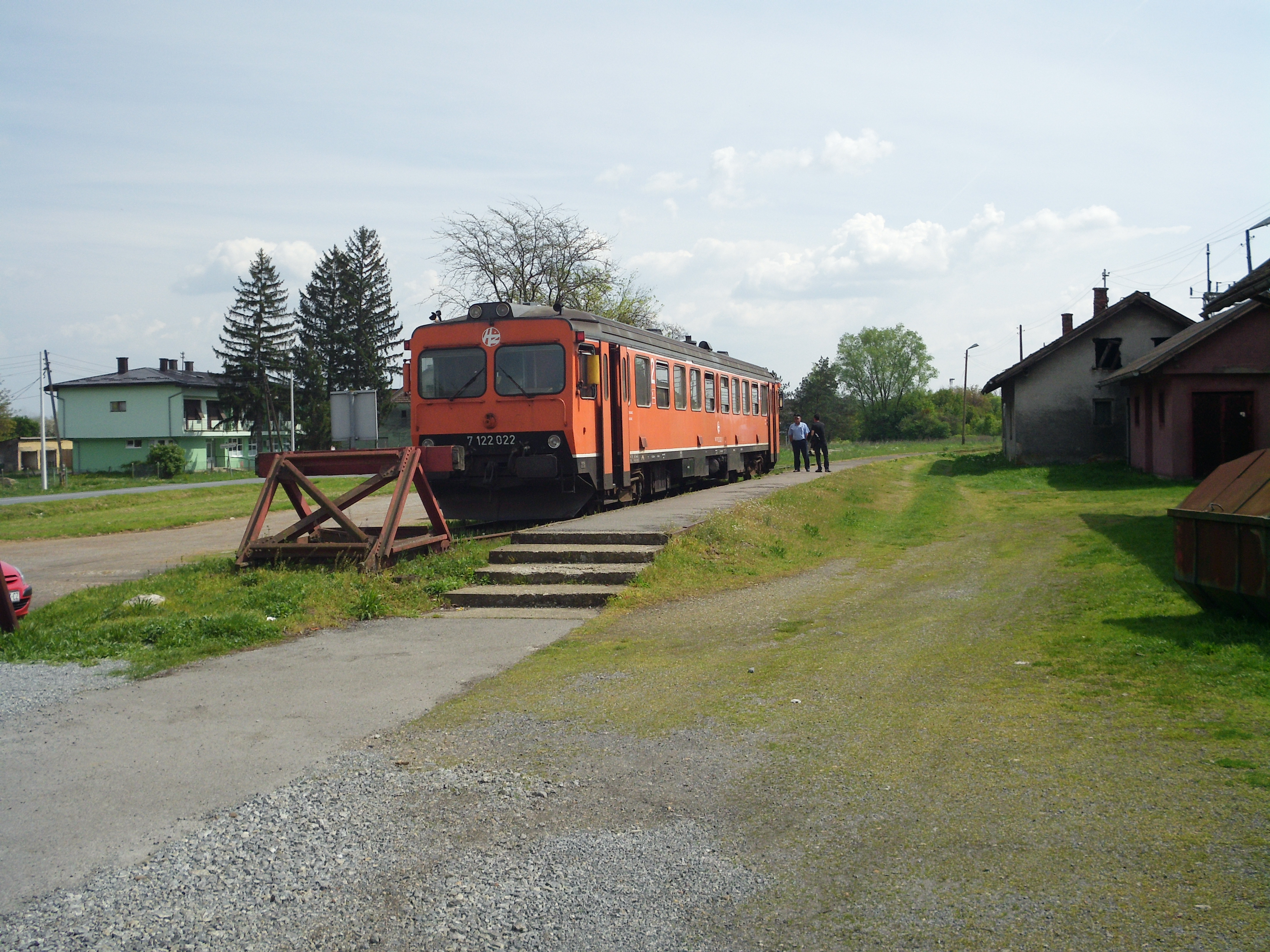 Railcar of Croatian Railways (HŽ) at a station of Banova Jaruga.